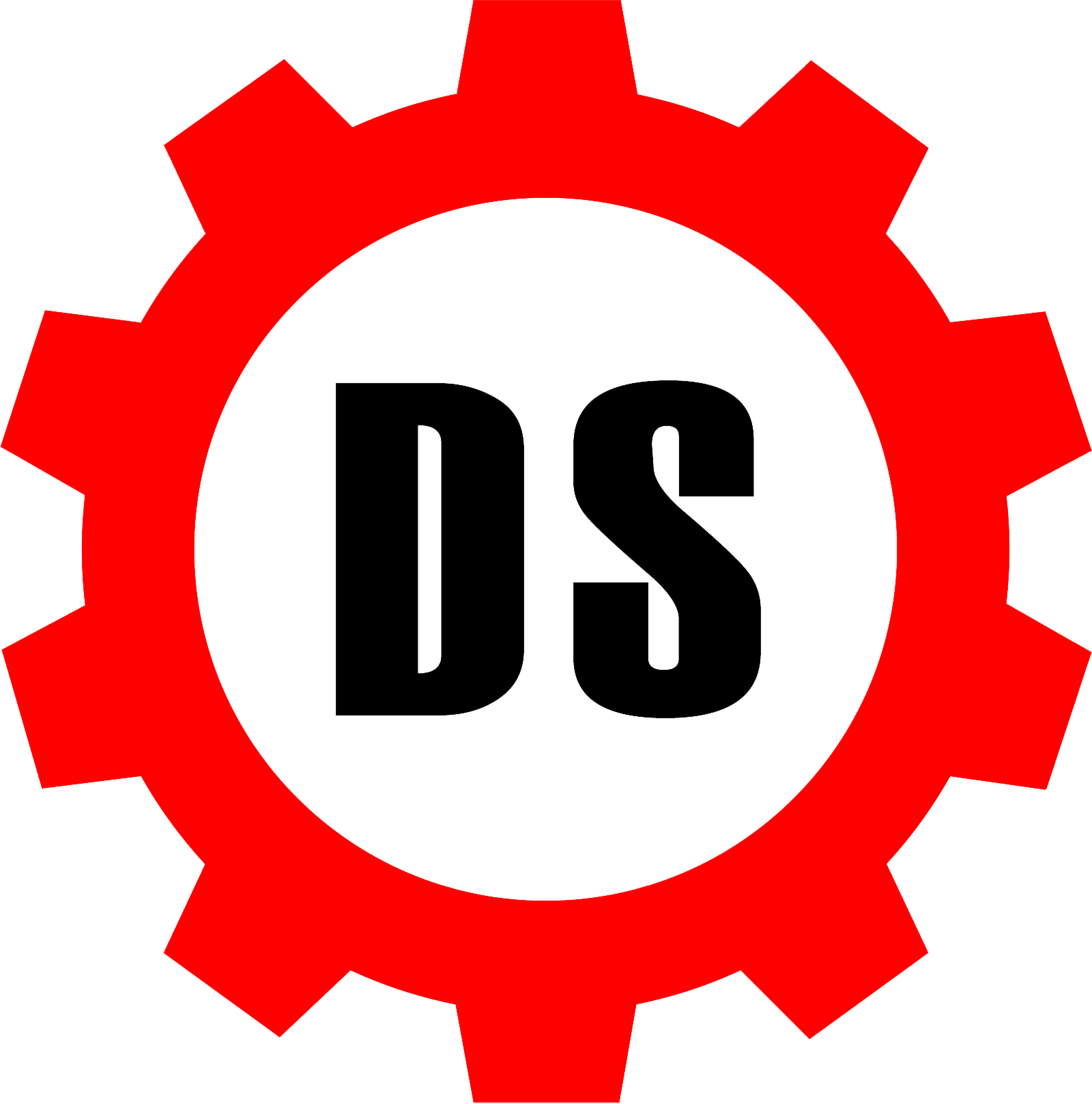 Logo of DS (Workers party, "Dělnická strana")